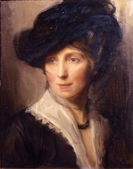 Portrait of Lucy de László